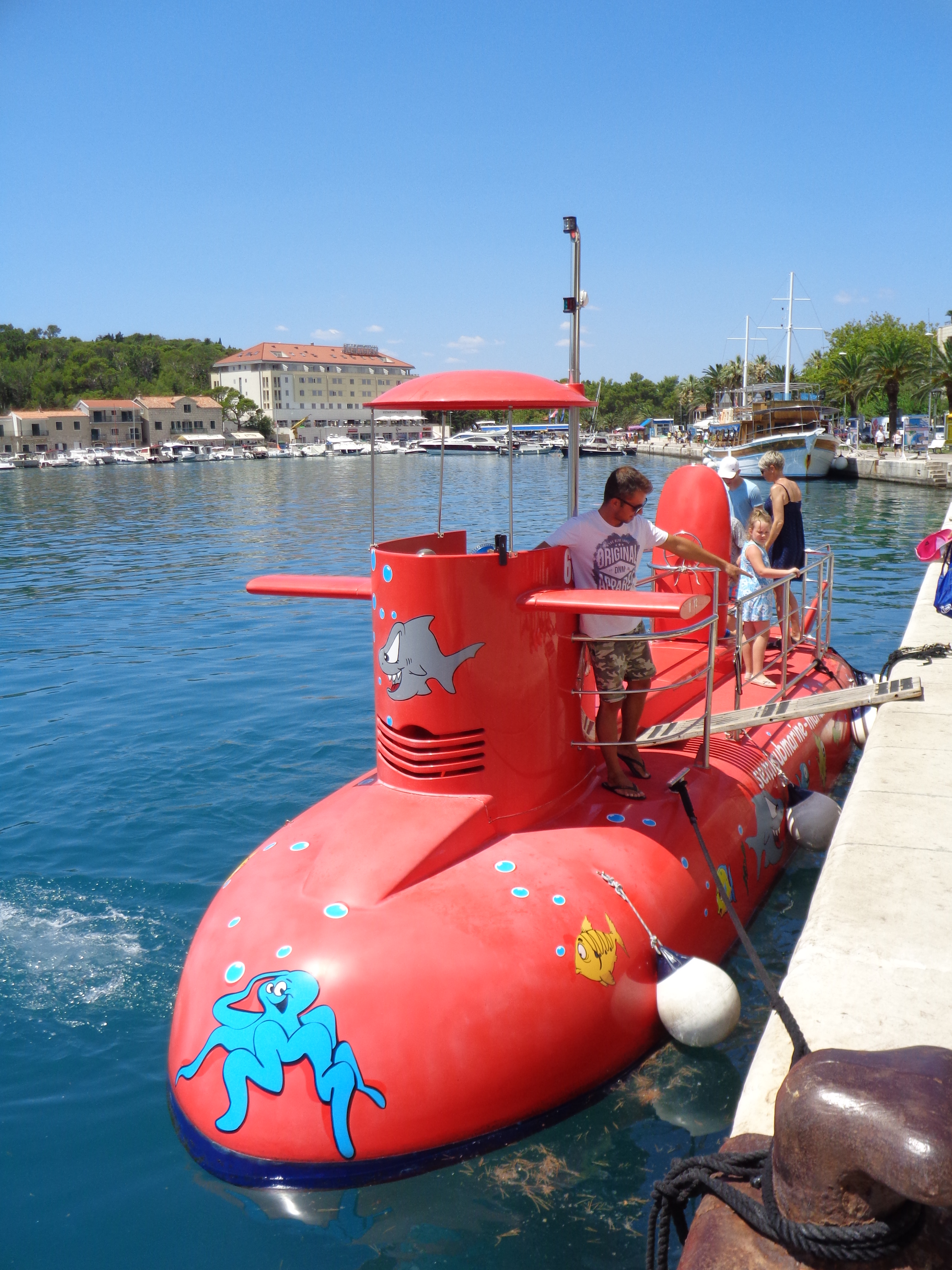 Red semi-submarine in Makarska, Split-Dalmatia County, Croatia